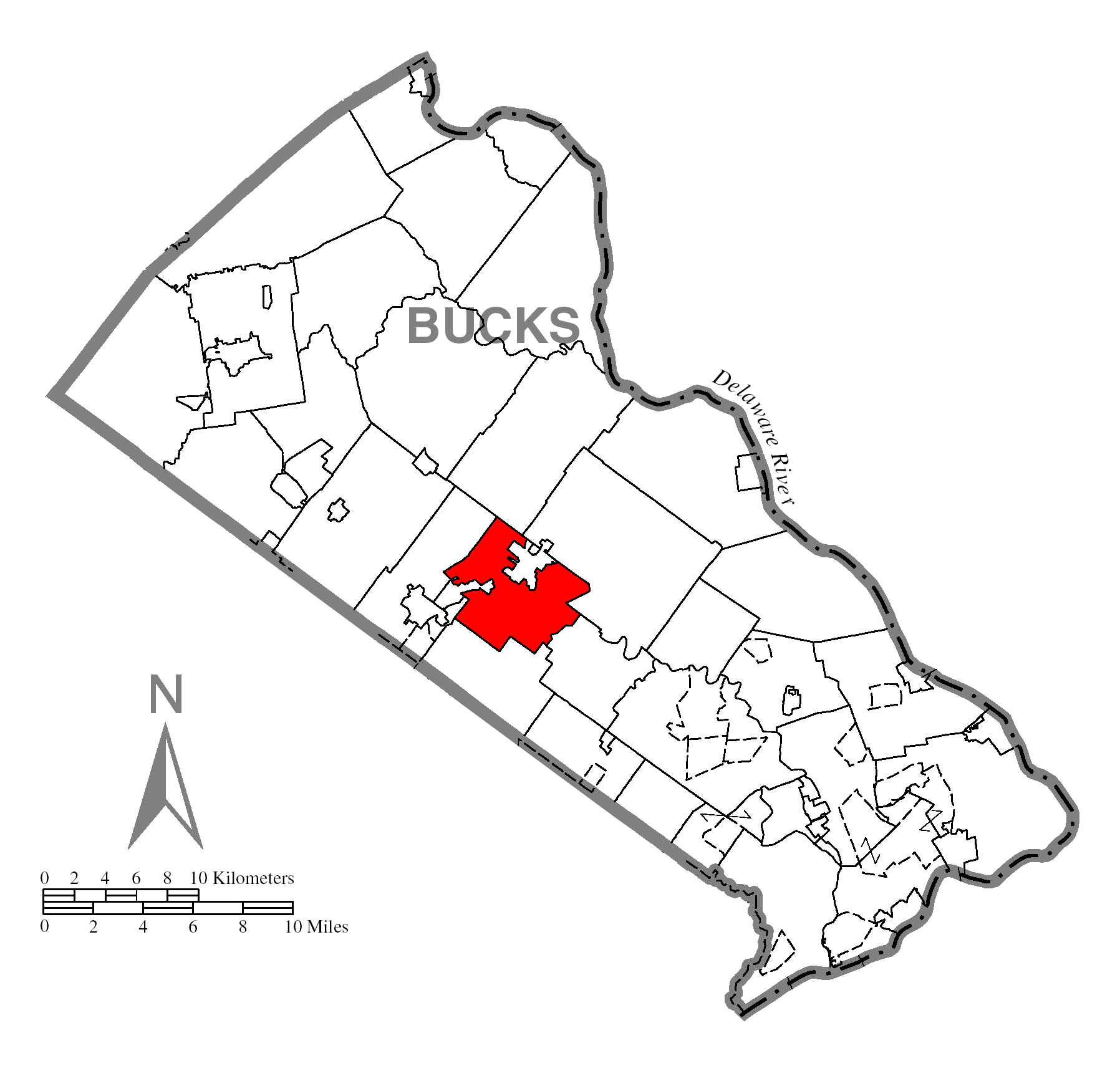 A map of Bucks County showing Doylestown Township, Pennsylvania (alternate) highlighted on the map.